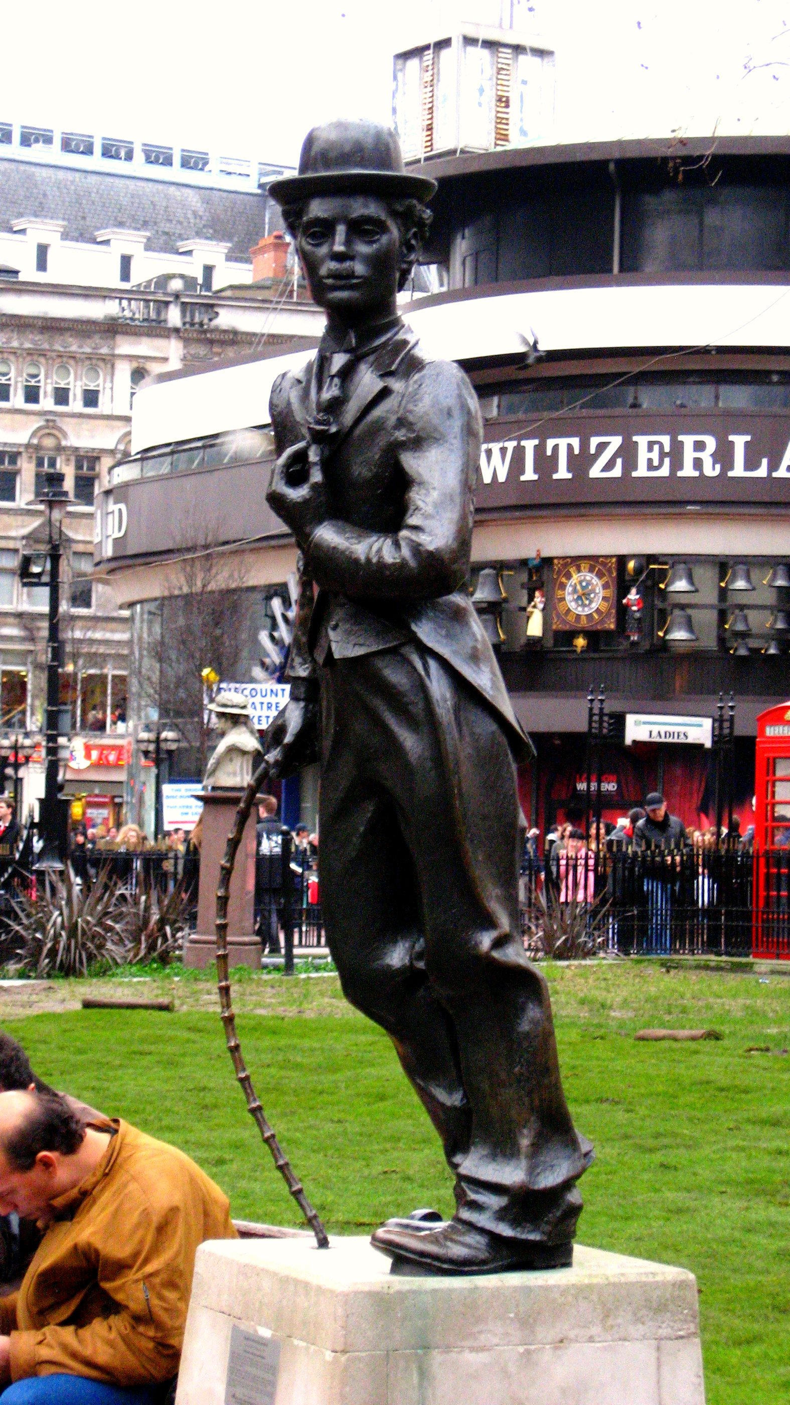 Statue of Charlie Chaplin in Leicester Square, London